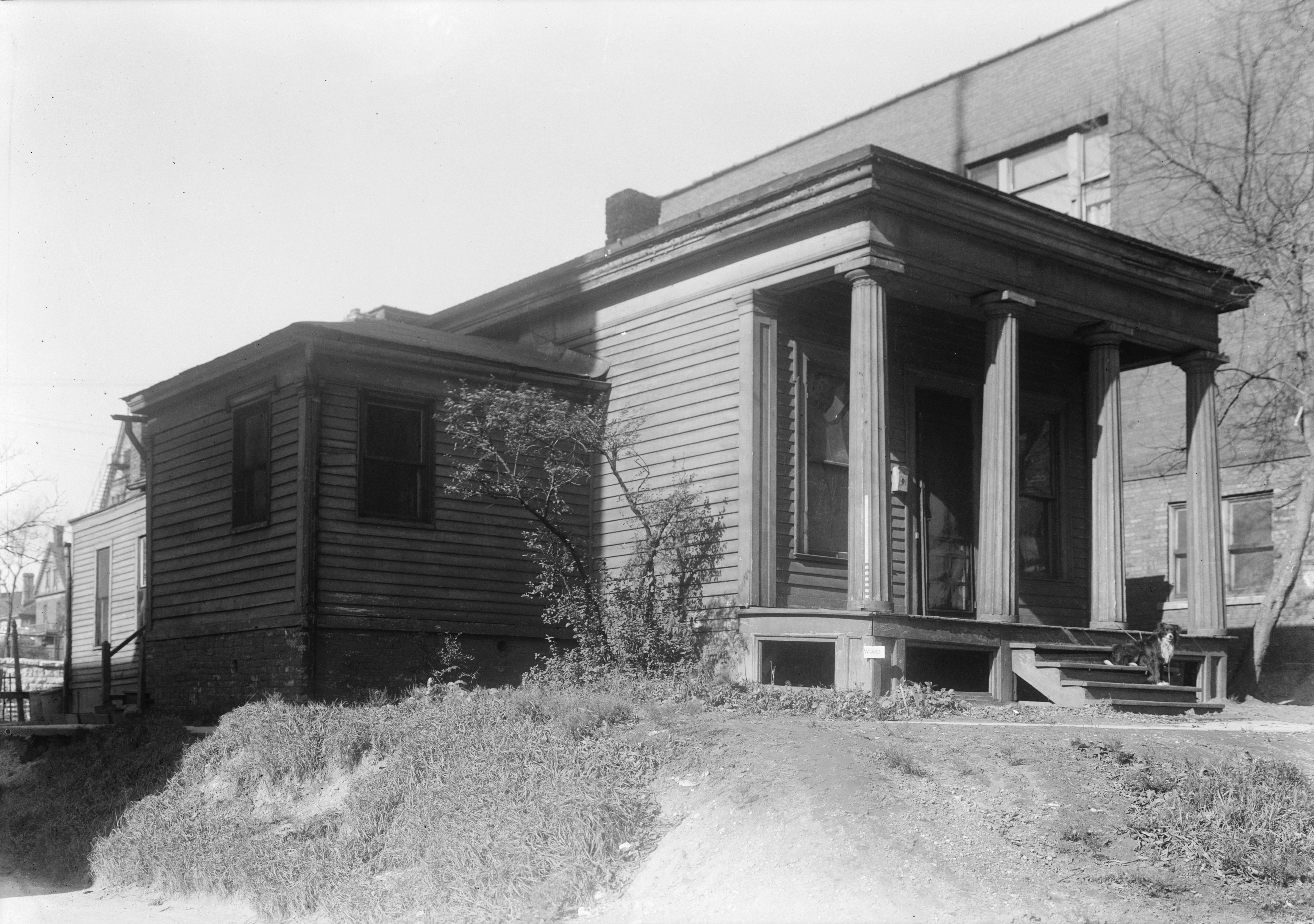 Benjamin Church House — erected in 1843 at 1533 North Fourth Street in Milwaukee, Wisconsin. This typical example of the Greek Revival type of architecture was built by an Englander who settled first in the eastern states before he emigrated to Milwaukee. Unlike many structures of this period, it is only one story in height, a wood structure. On the National Register of Historic Places. Image courtesy of Historic American Buildings Survey; photographed in 1936.